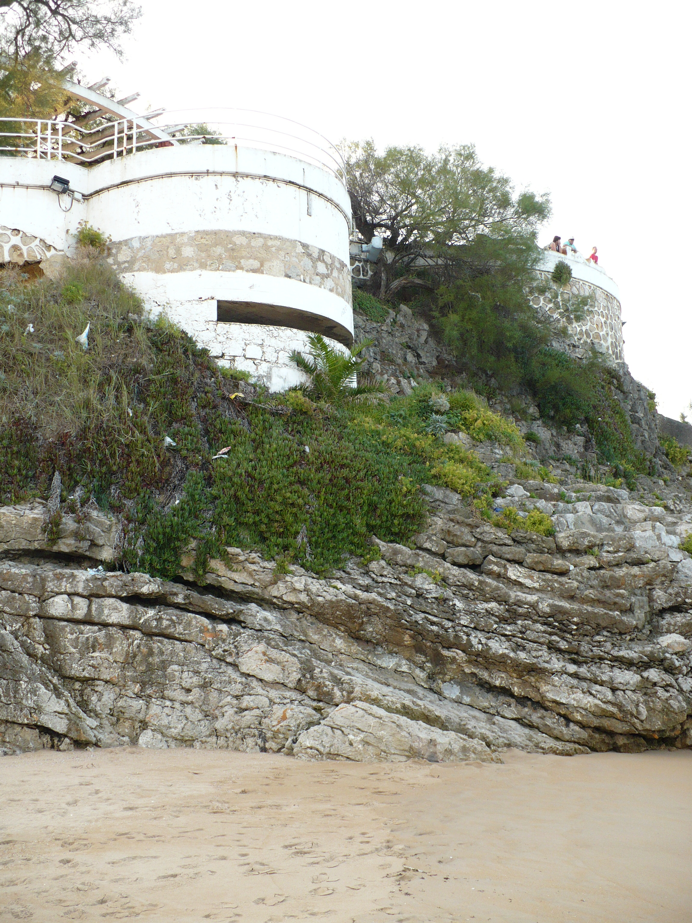 Spanish Civil War machine-gun nest at Piquío, El Sardinero, Santander (Cantabria).